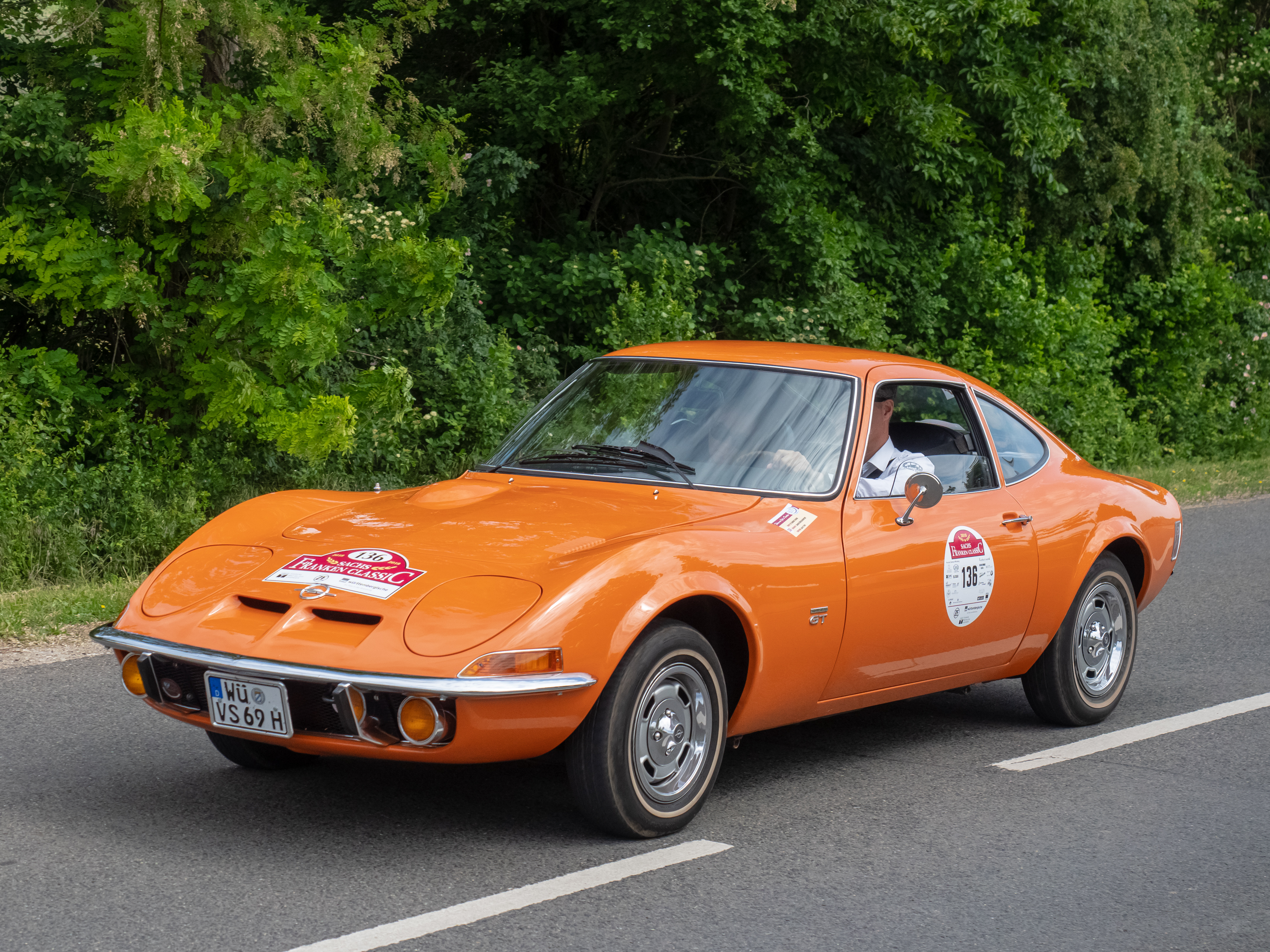 Opel GT at the Sachs Franken Classic 2018 Rally, 2st stage